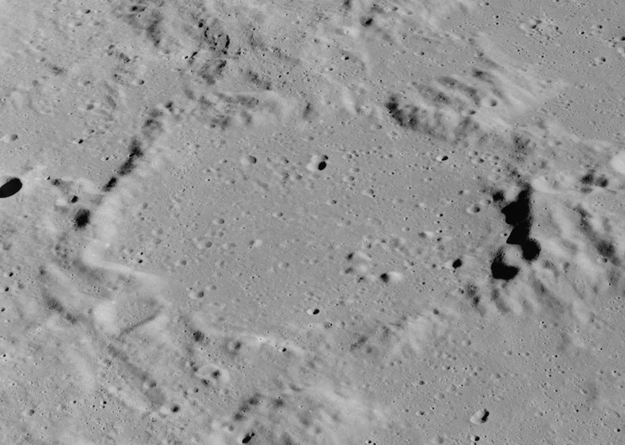 Oblique view of Saunder crater, facing north, on the moon